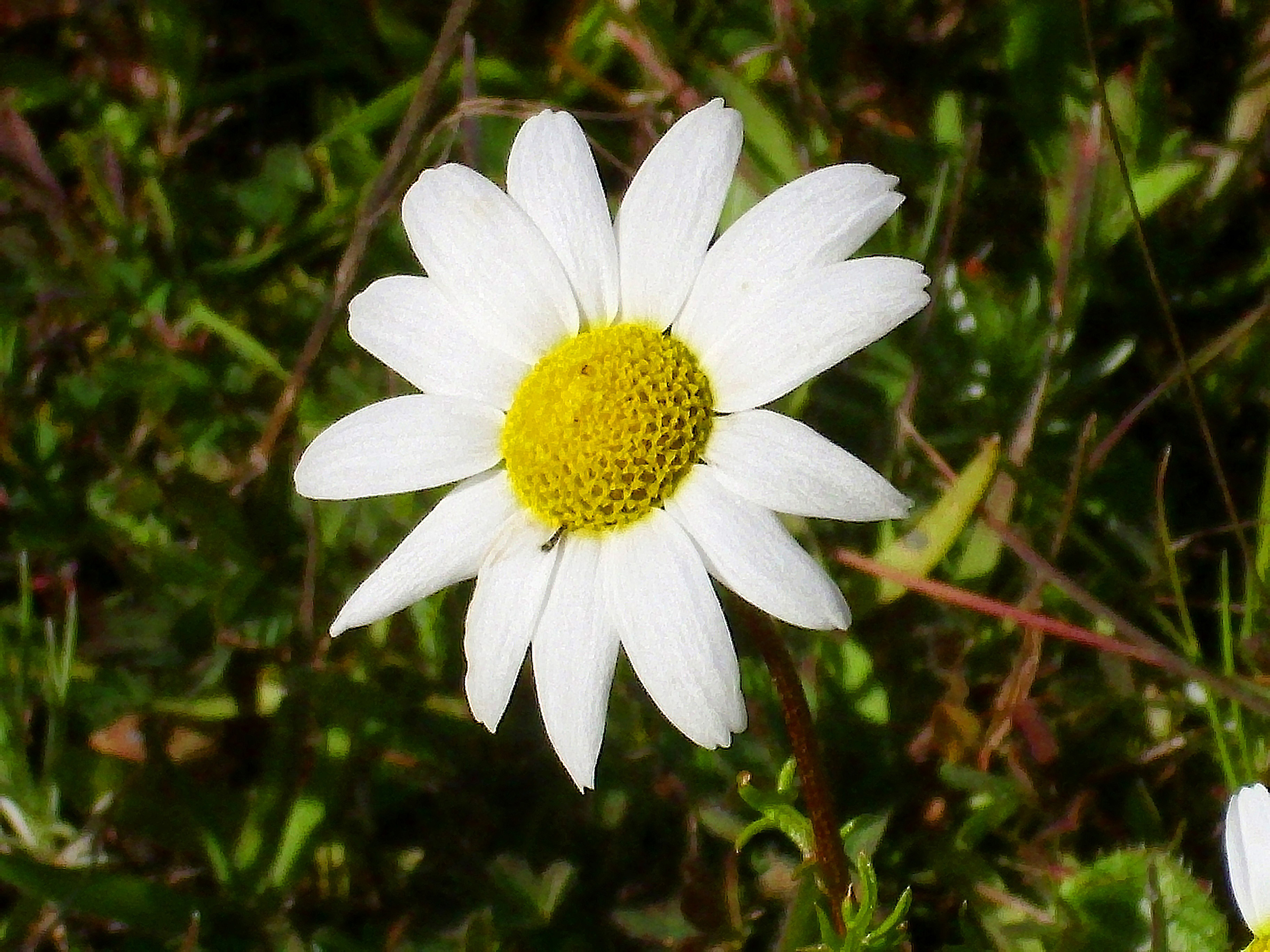 Anthemis vulgaris head close up, Sierra Madrona, Spain